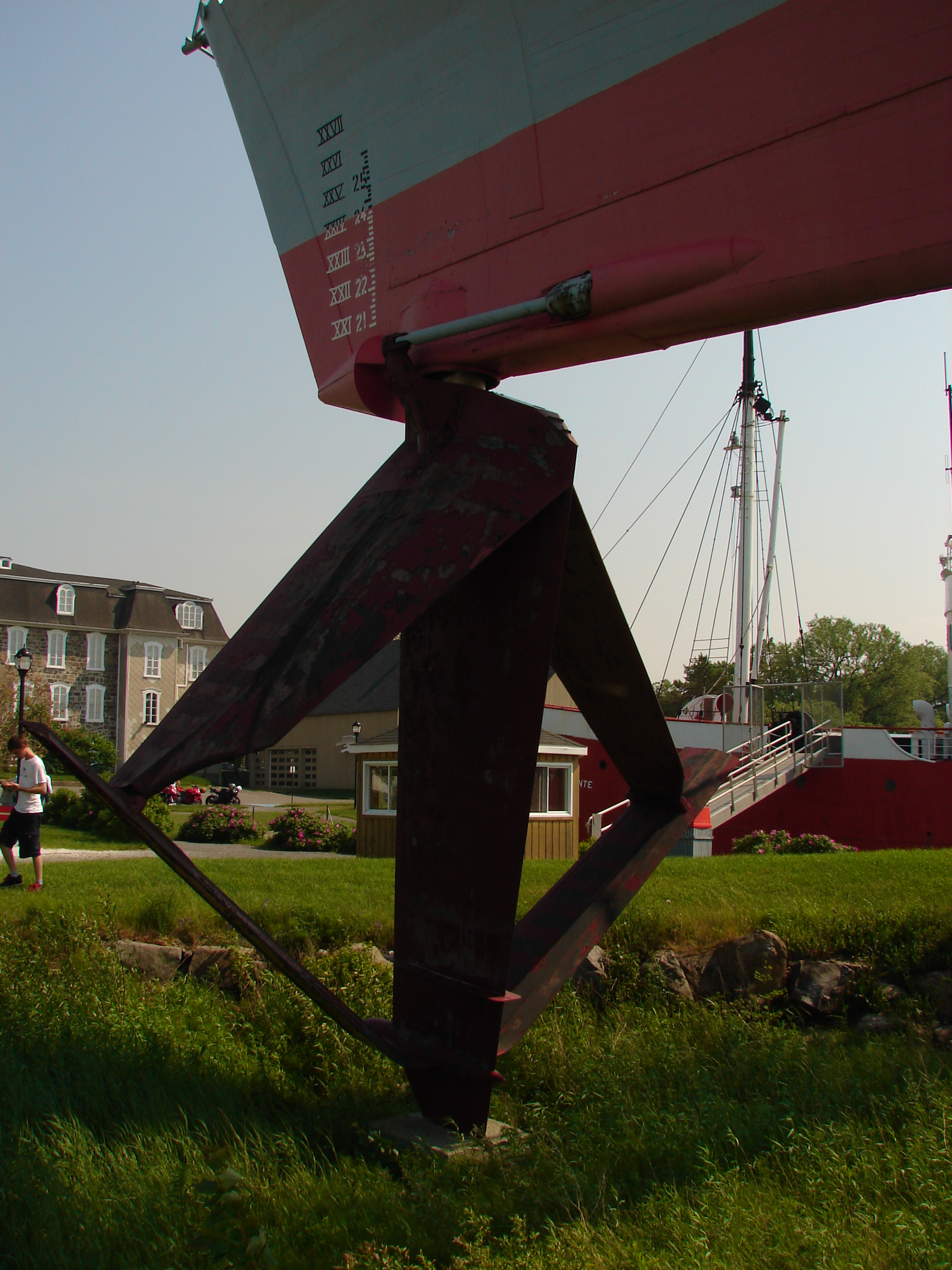 Author: Miguel Tremblay Date: June 19th 2006 Source: Photo taken by me on at the Musée maritime du Québec. Description: View of the front of the hydrofoil HMCS Bras d'Or 400.